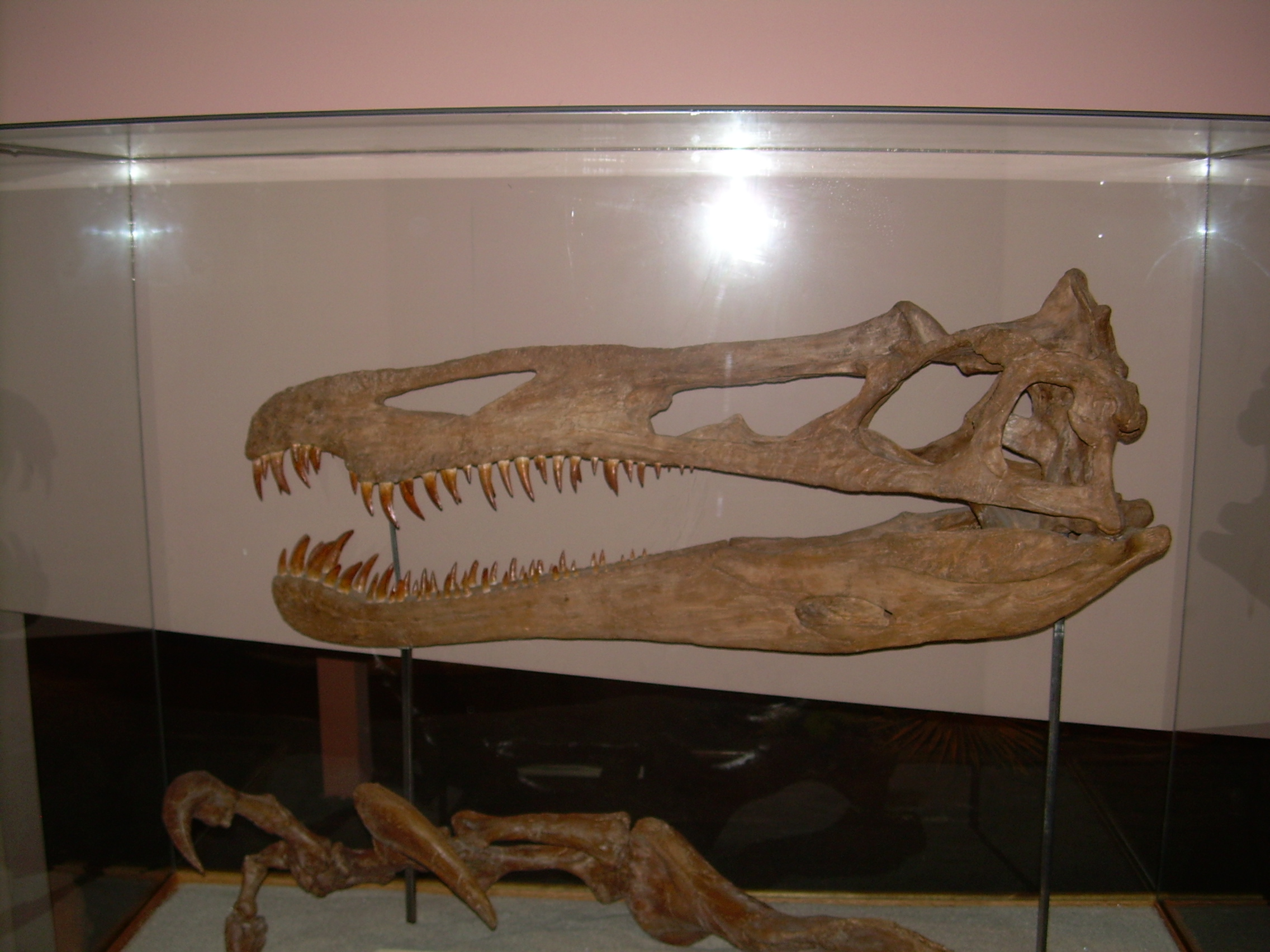 Photograph of fossil casts of a Suchomimus tenerensis skull and claw taken at the North American Museum of Ancient Life.